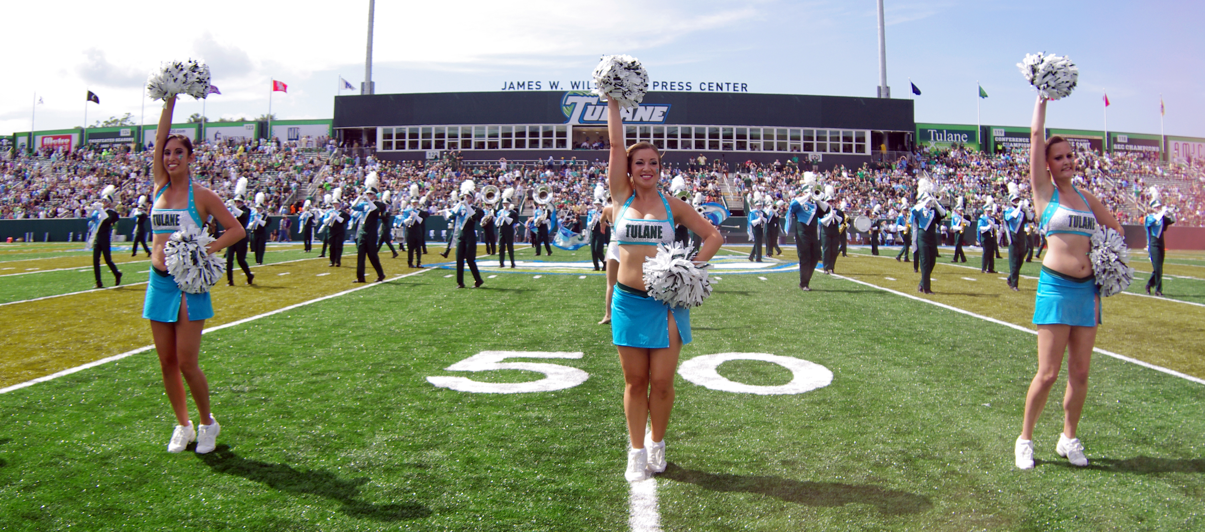 Halftime on opening day for the new Yulman Stadium on the campus of Tulane University (Sept. 6, 2014)